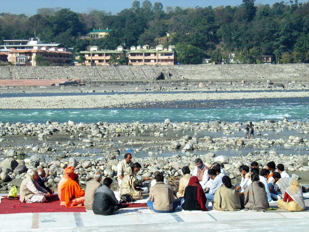 Another Ganga shot, nice!